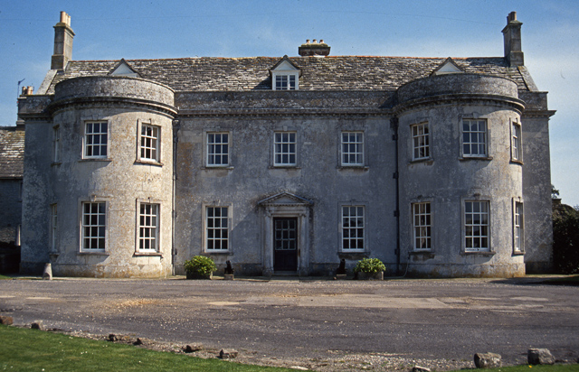 Smedmore House (2) The northwest front with its twin bows was added in 1761.